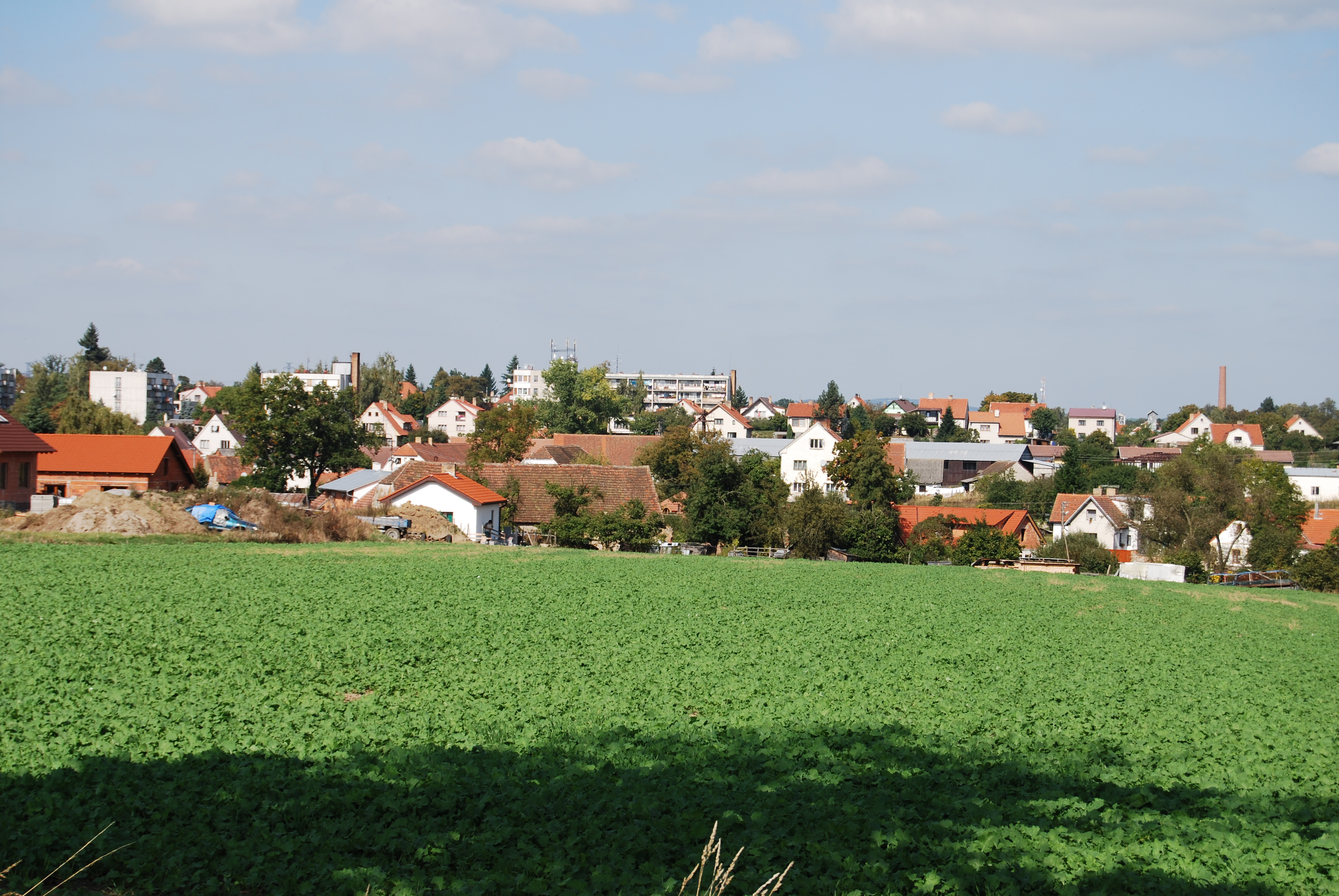 View to Čimelice from road to Smetanova Lhota